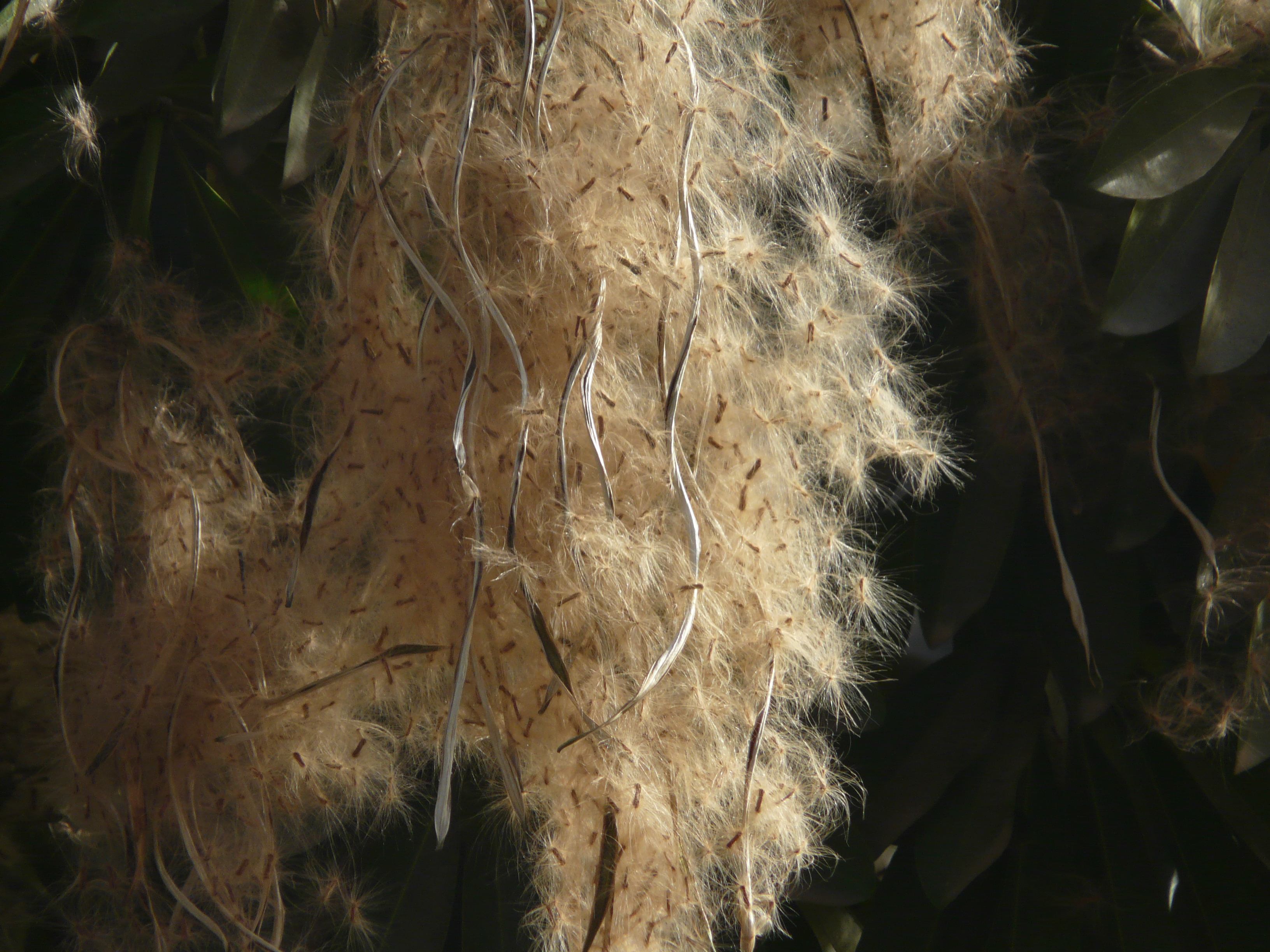 Apocynaceae (dogbane family) » Alstonia scholaris al-STON-ee-uh -- named for Dr. C. Alston, 18th cent. Scottish Prof. of Botany at Edinburgh skol-lay-riss -- of school, its wood traditional used for making wooden slates, blackboard commonly known as: alstonia, Australian quinine bark tree, bitter-bark tree, blackboard tree, chatiyan wood, devil's tree, dita bark tree, shaitan, white cheesewood tree • Bengali: chattim • Hindi: चितवन chitvan, शैतान का झाड़ shaitan ka jhar • Kannada: doddapala, janthaila • Malayalam: daivappala • Marathi: सप्तपर्ण saptaparna, satvin • Sanskrit: सप्तपर्ण saptaparna • Tamil: ஏழிலை பிள்ளை ezilai pillai, palegaruda, முகும்பலை mukumpalai • Telugu: ఏడాకులయరటిచెట్టు edakulayaraticettu, సప్తవర్ణము saptavarnamu Native of: tropical Asia References: Flowers of India • Dave's Garden • ZipCode Zoo • EcoPort